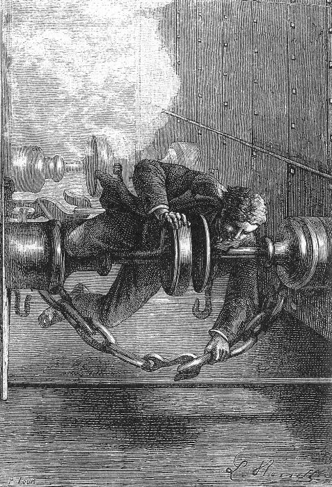 An ilustration from the novel "Around the World in Eighty Days" by Jules Verne painted by Alphonse de Neuville and/or Léon Benett.